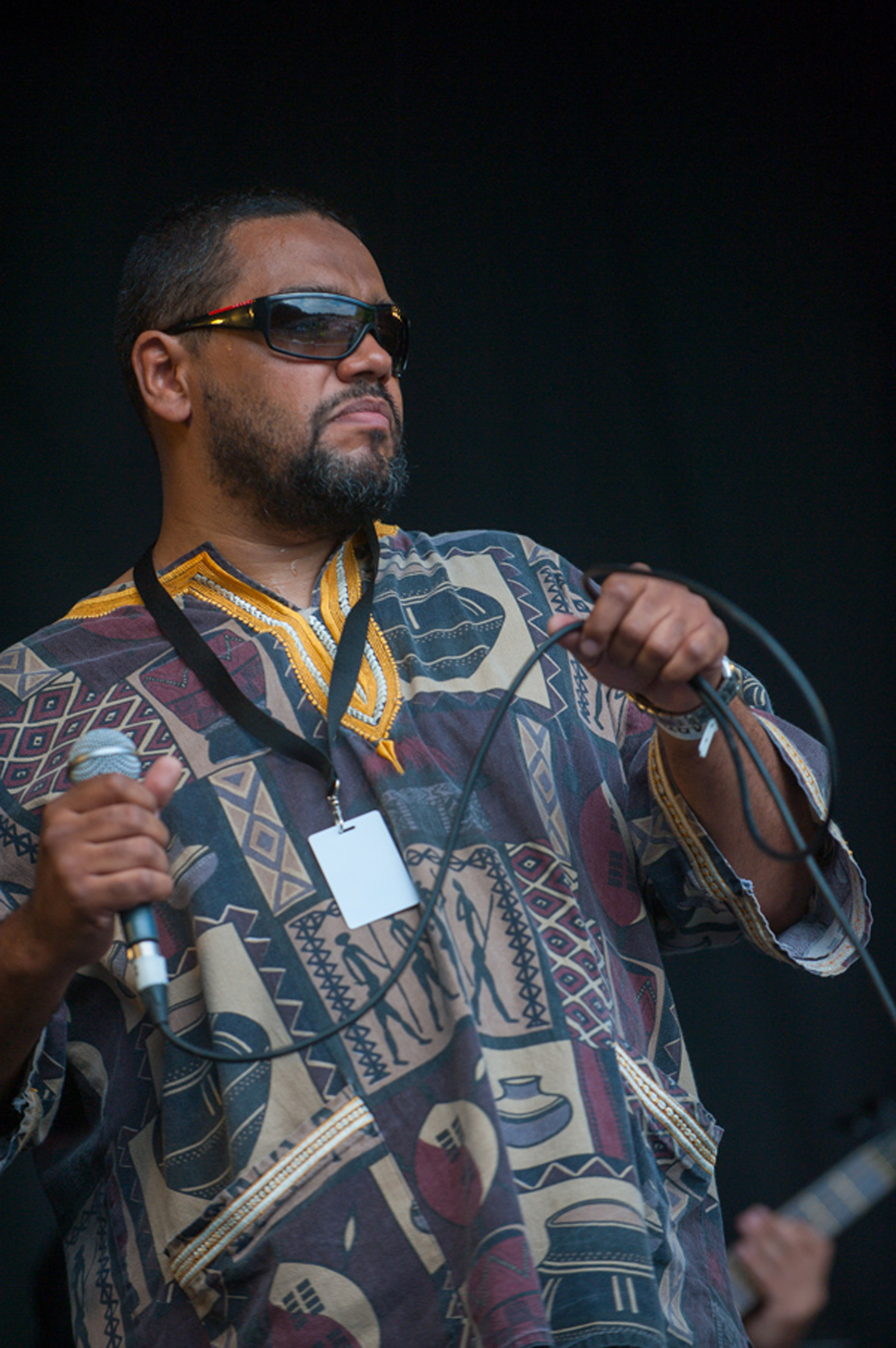 Malik of the band Malik & the O.G's live on stage at Liverpool International Music Festival.